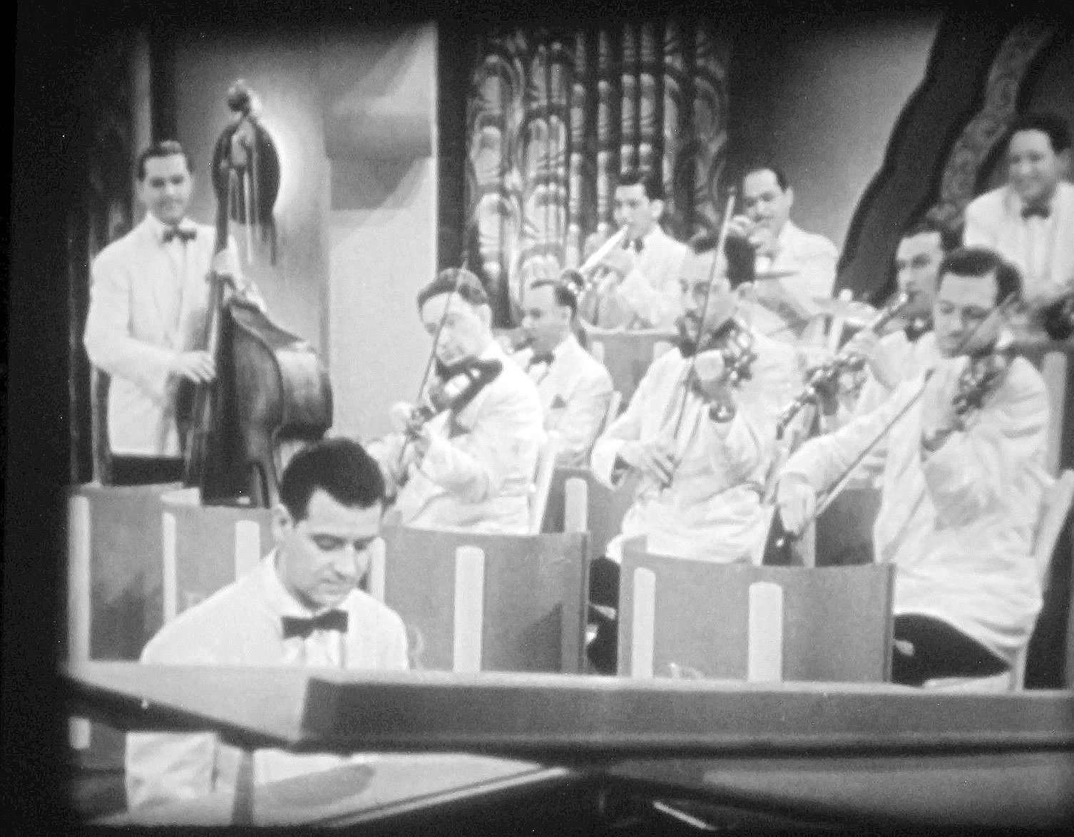 Screenshot from a 1944 film short. Take It Easy featuring Ray Sinatra and his orchestra with vocalist Marion Colby.